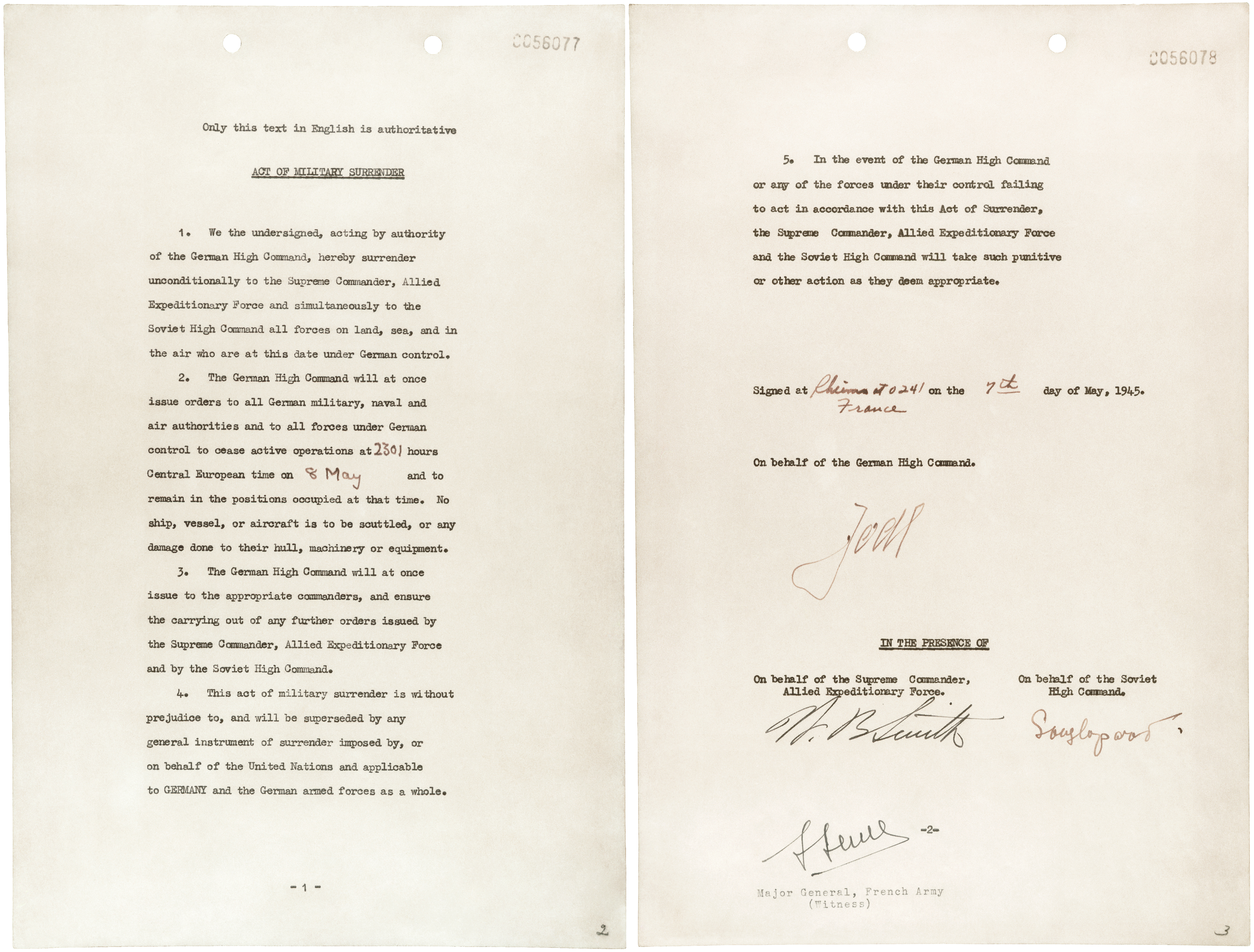 This instrument of surrender was signed on May 7, 1945, at Gen. Dwight D. Eisenhower's headquarters in Rheims by Gen. Alfred Jodl, Chief of Staff of the German Army. At the same time, he signed three other surrender documents, one each for Great Britain, Russia, and France. Signatories: On behalf of the German High Command. JODL IN THE PRESENCE OF On behalf of the Supreme Commander, Allied Expeditionary Force. W. B. SMITH On behalf of the Soviet High Command. SOUSLOPAROV F SEVEZ Major General, French Army (Witness)